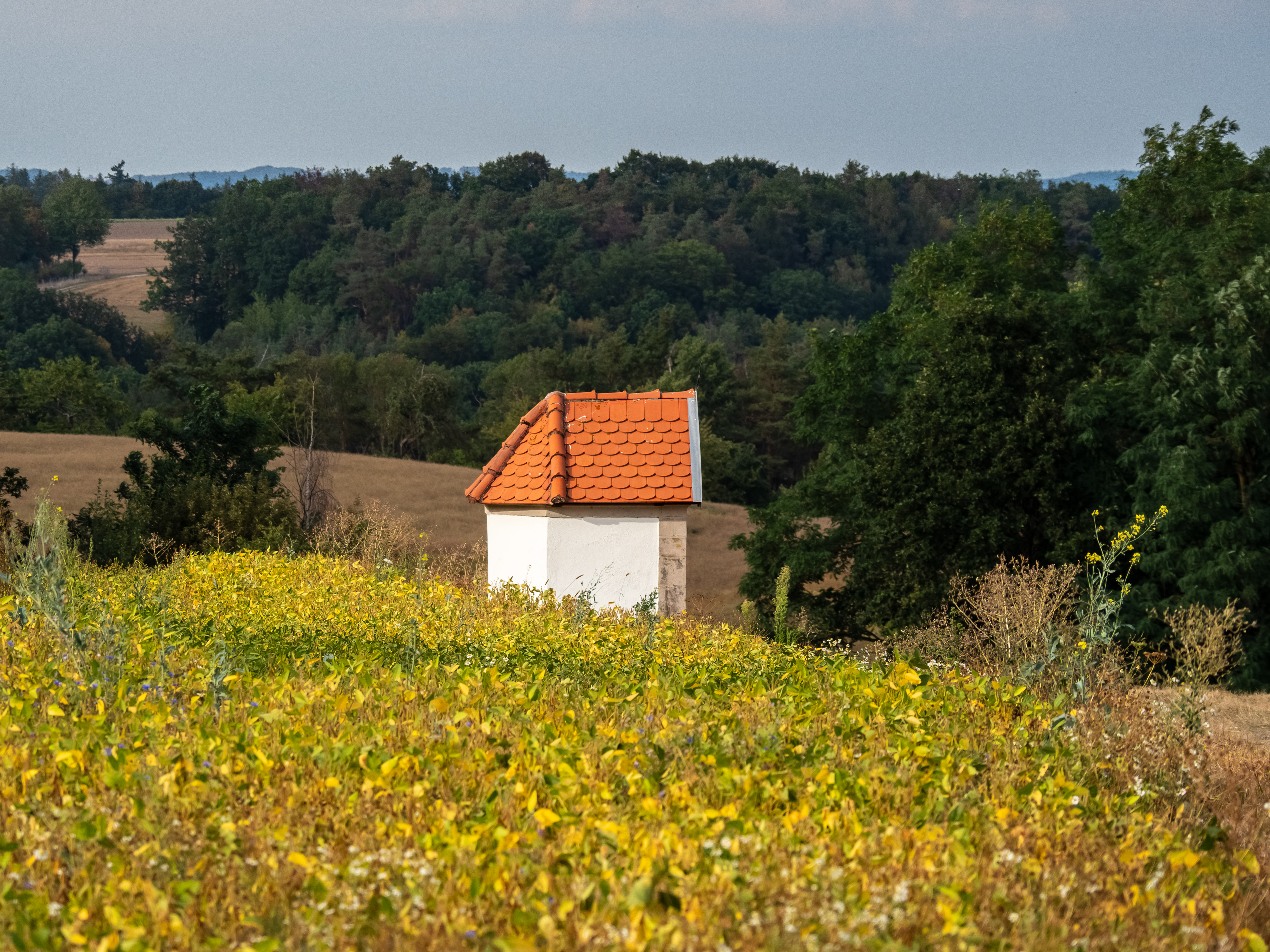 Chapel near Unterschleichach Fatschenbrunner Berg